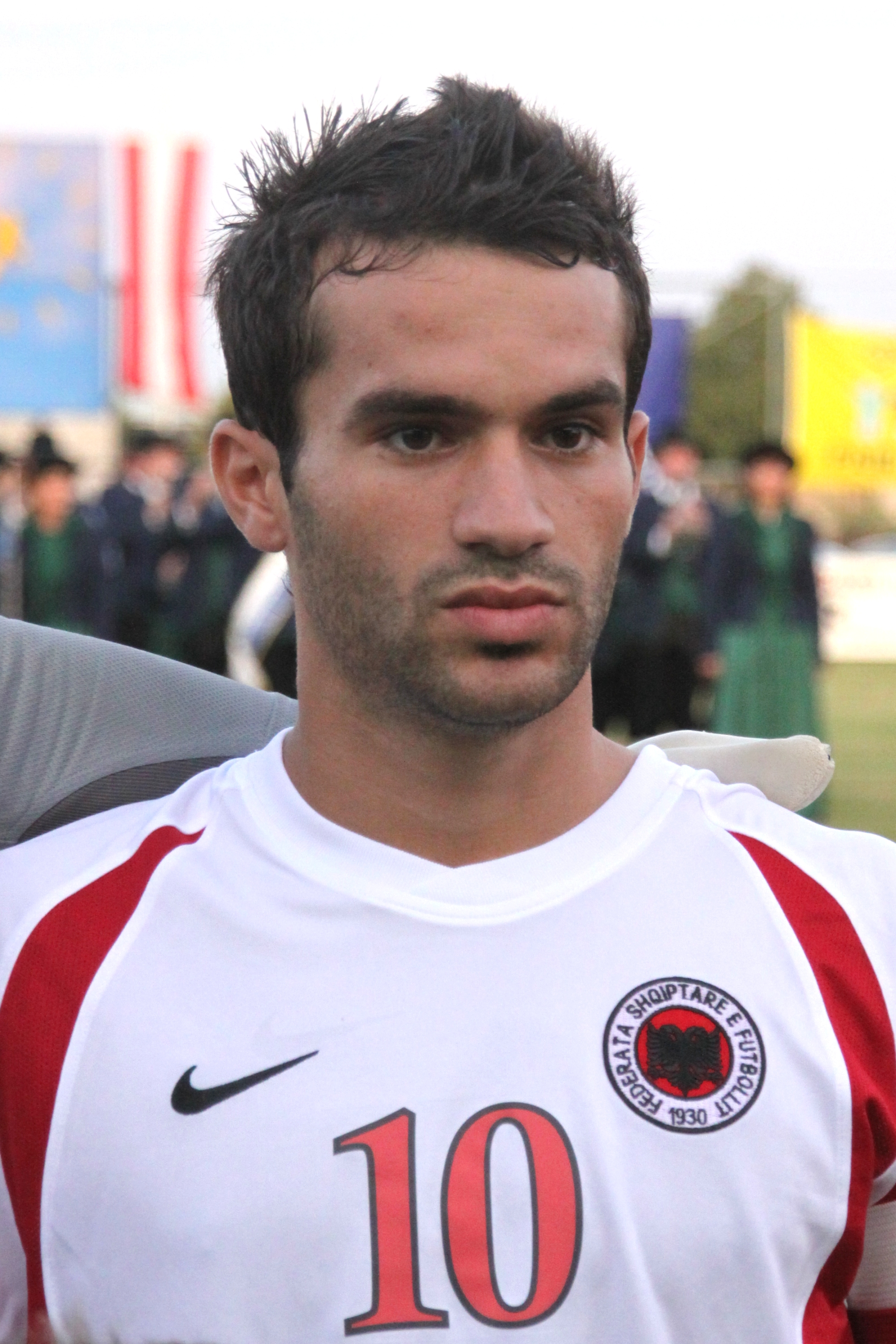 Erindo Karabeci (KF Tirana) - Albania national under-21 football team (1)